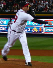 I took this photo on June 5, 2007 08:04, 8 June 2007 . . Chrisjnelson . . 212×272 (114,501 bytes)